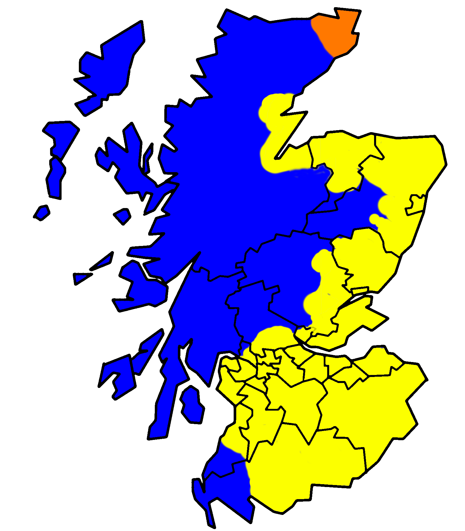 Linguistic divide c1400 as per Nicholson 1974 Gaelic Scots Norn